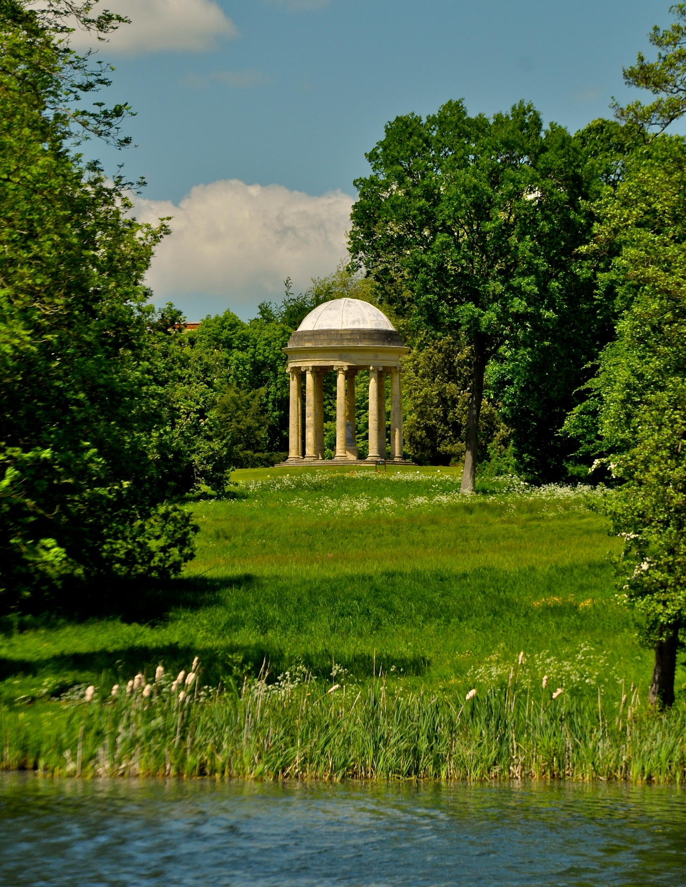 The Rotunda